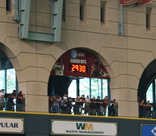 I took this photo on April 2, 2007 at Minute Maid Park. 18:26, 3 April 2007 . . Blwarren713 . . 514×447 (57 KB)